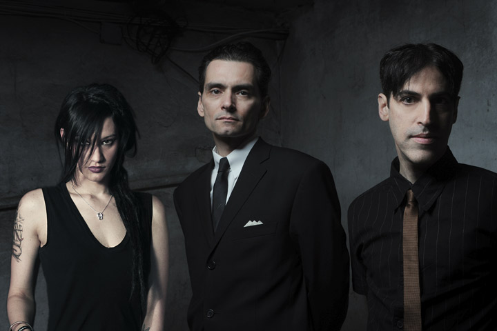 Black Tape for a Blue Girl. From left to right, Valerie, Athan & Sam. Athan & Sam & Background by Kyle Cassidy. Valerie by Sam.